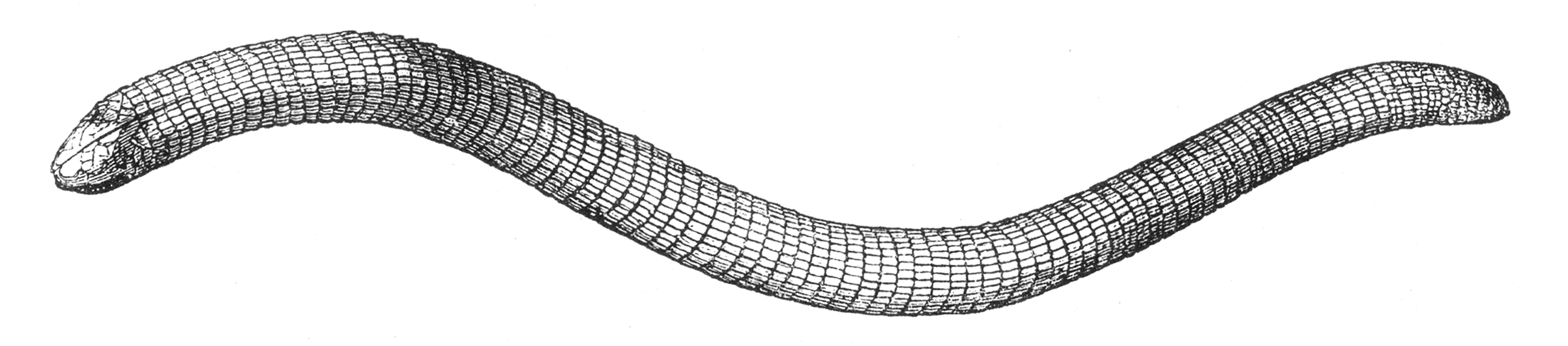 Caption: "Amphisbæna." (version with caption)